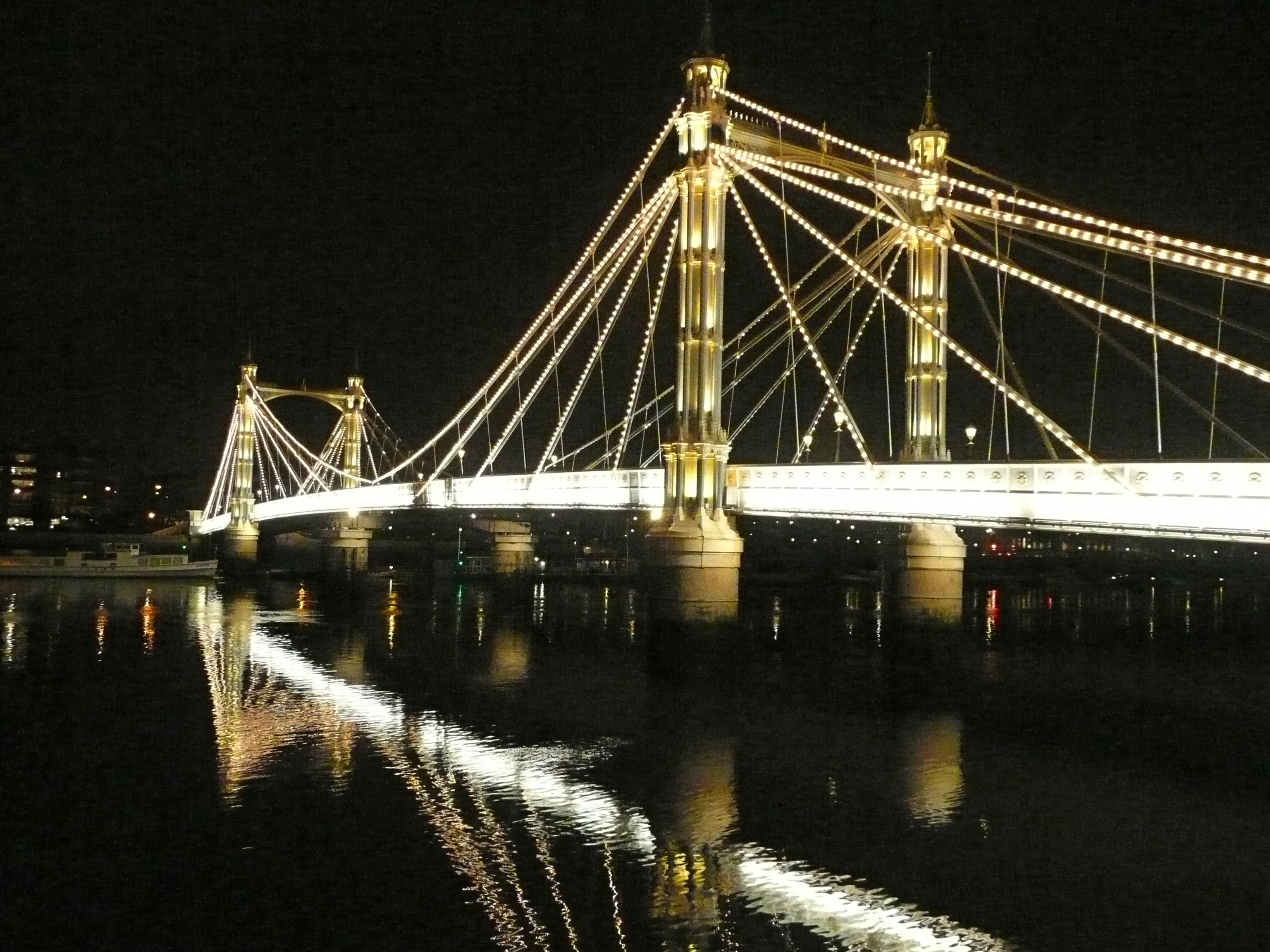 Albert Bridge, London by night